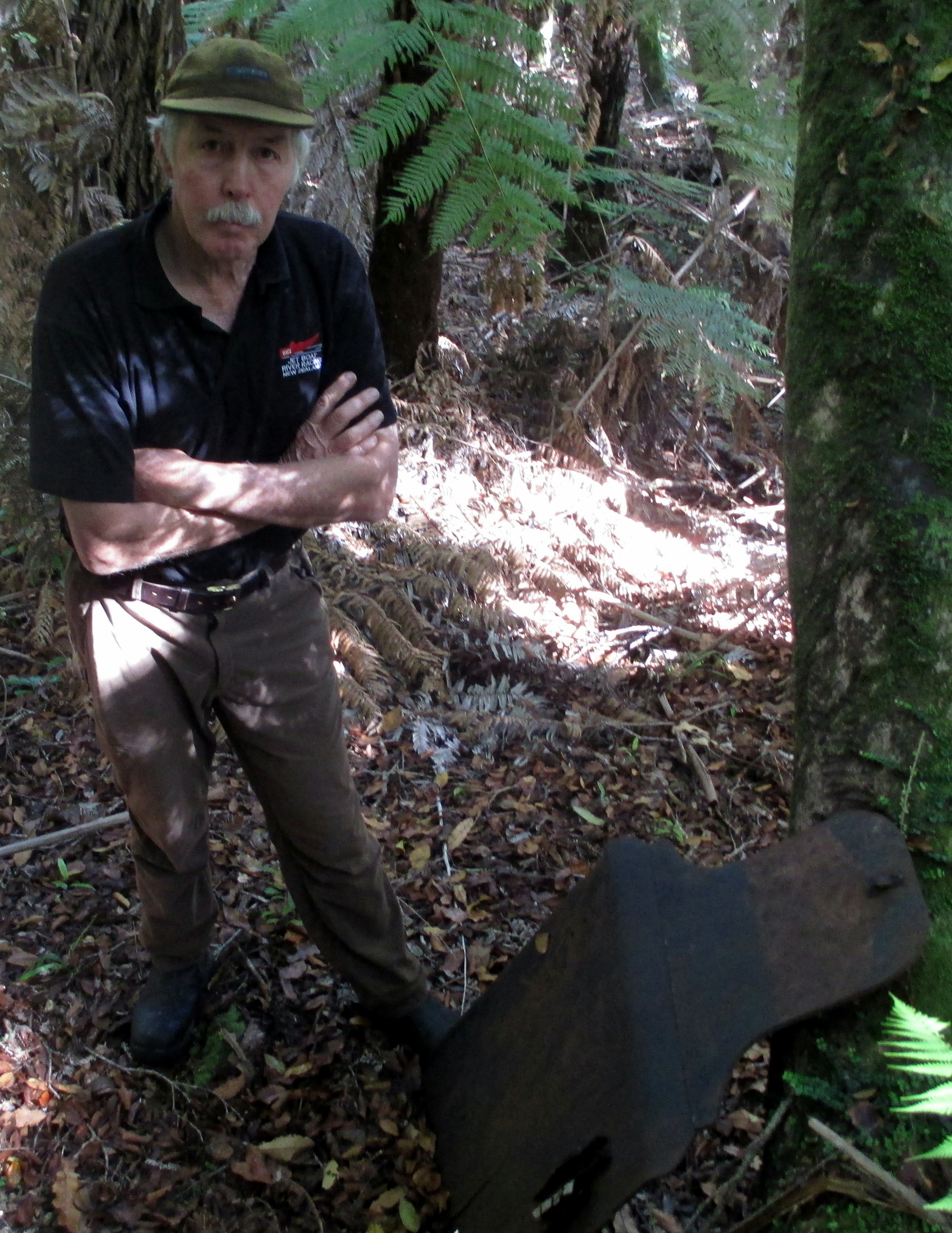 Errol Clince stands next to a pilots' seat armour-plate from a wreckage of a P-51 Mustang in Taranaki, a plane wreckage unrelated to his wreckage discovery.